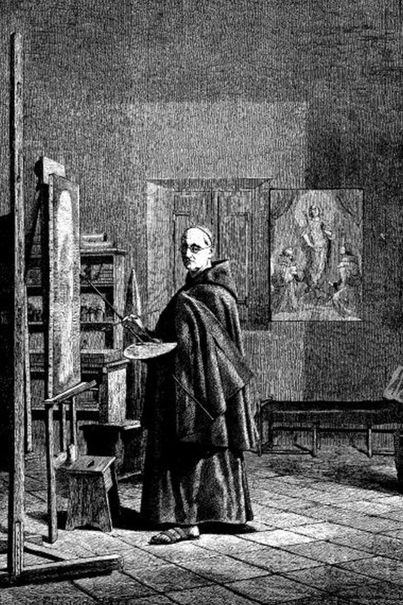 The Danish painter Albert Küchler in his studio in St. Bonaventure Monastery in Rome / Original drawing by FC Lund, published January 19, 1873Danish: Den danske Maler Albert Küchler i sit Atelier i Klostret S. Bonaventura i Rom / Originaltegning af F.C. Lund, i Illustreret Tidende 19. januar 1873